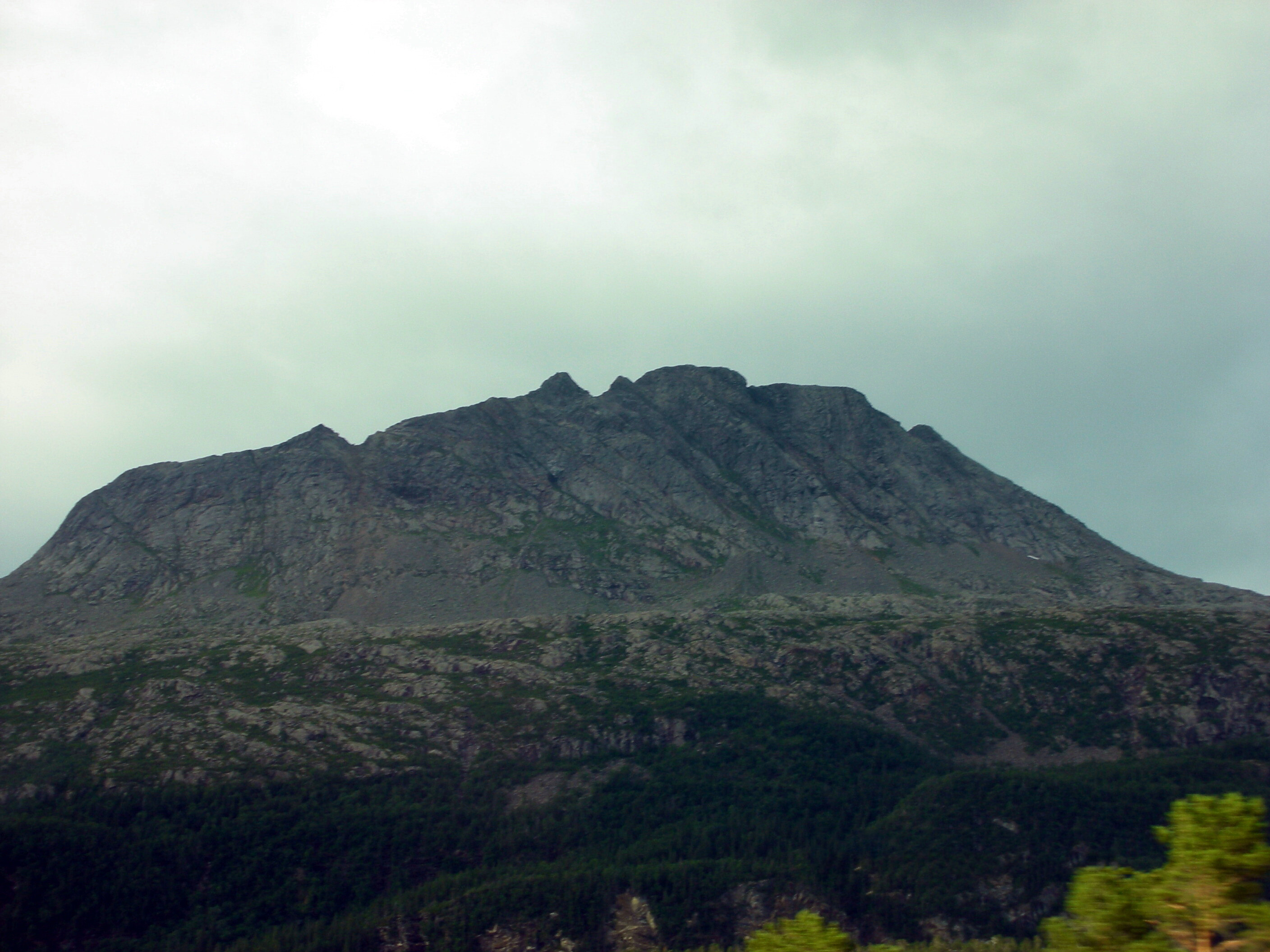 Heilhornet, a mountain located in the municipality of Bindal, Norway. Seen from Sagbukta in south-west.